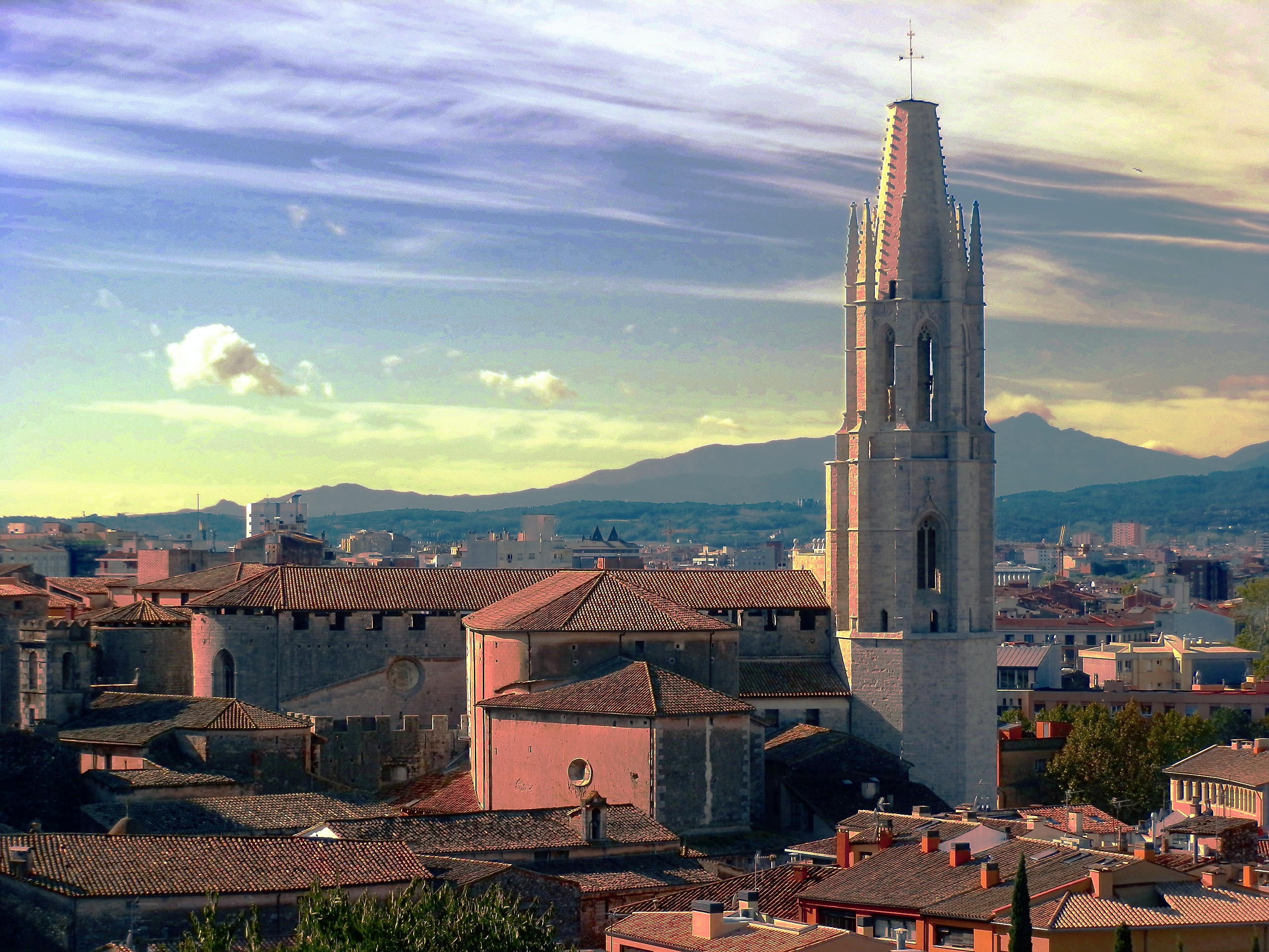 Church of Sant Feliu in Girona